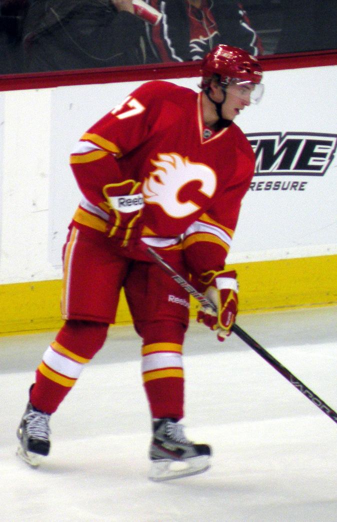 Calgary Flames forward Sven Bärtschi prior to making his National Hockey League debut, against the Winnipeg Jets.